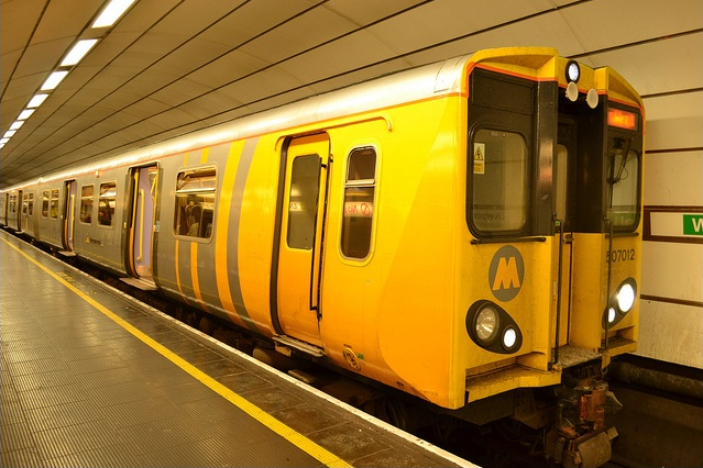 Typical Merseyrail train at Liverpool Central underground station